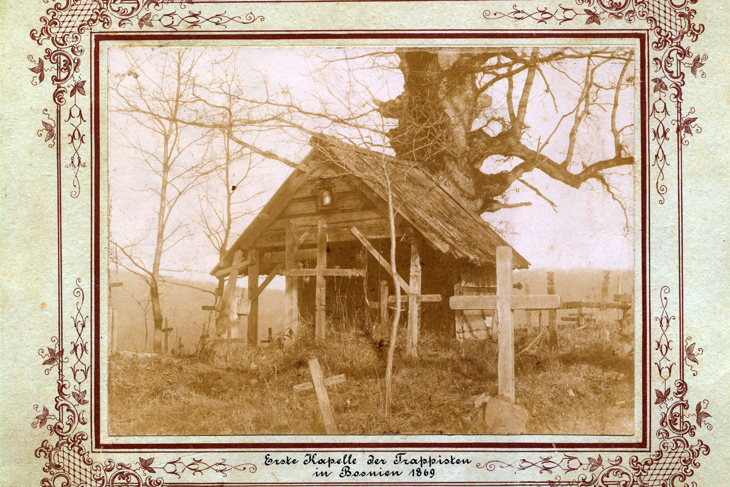 First Trappist Chapel in Banja Luka, Bosnia (1869)